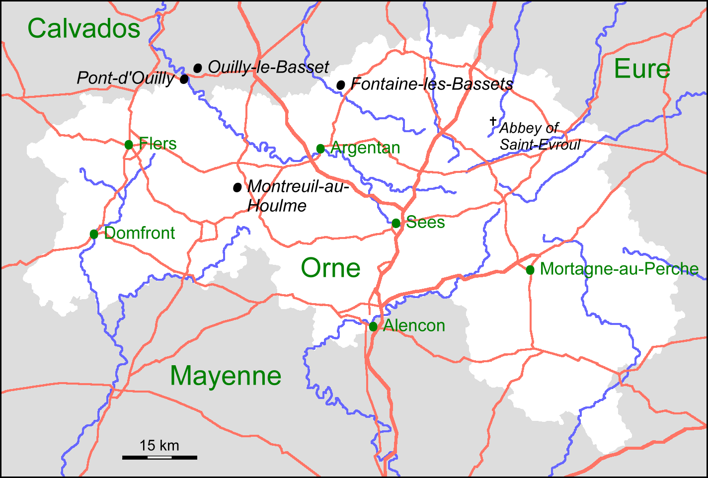 Location of Basset sites in the Department of Orne, southern Normandy